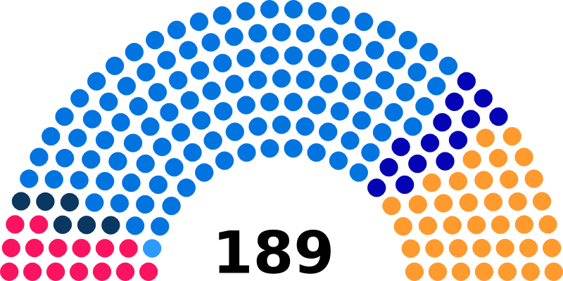 Seats diagramme of Swiss National Council (1911)